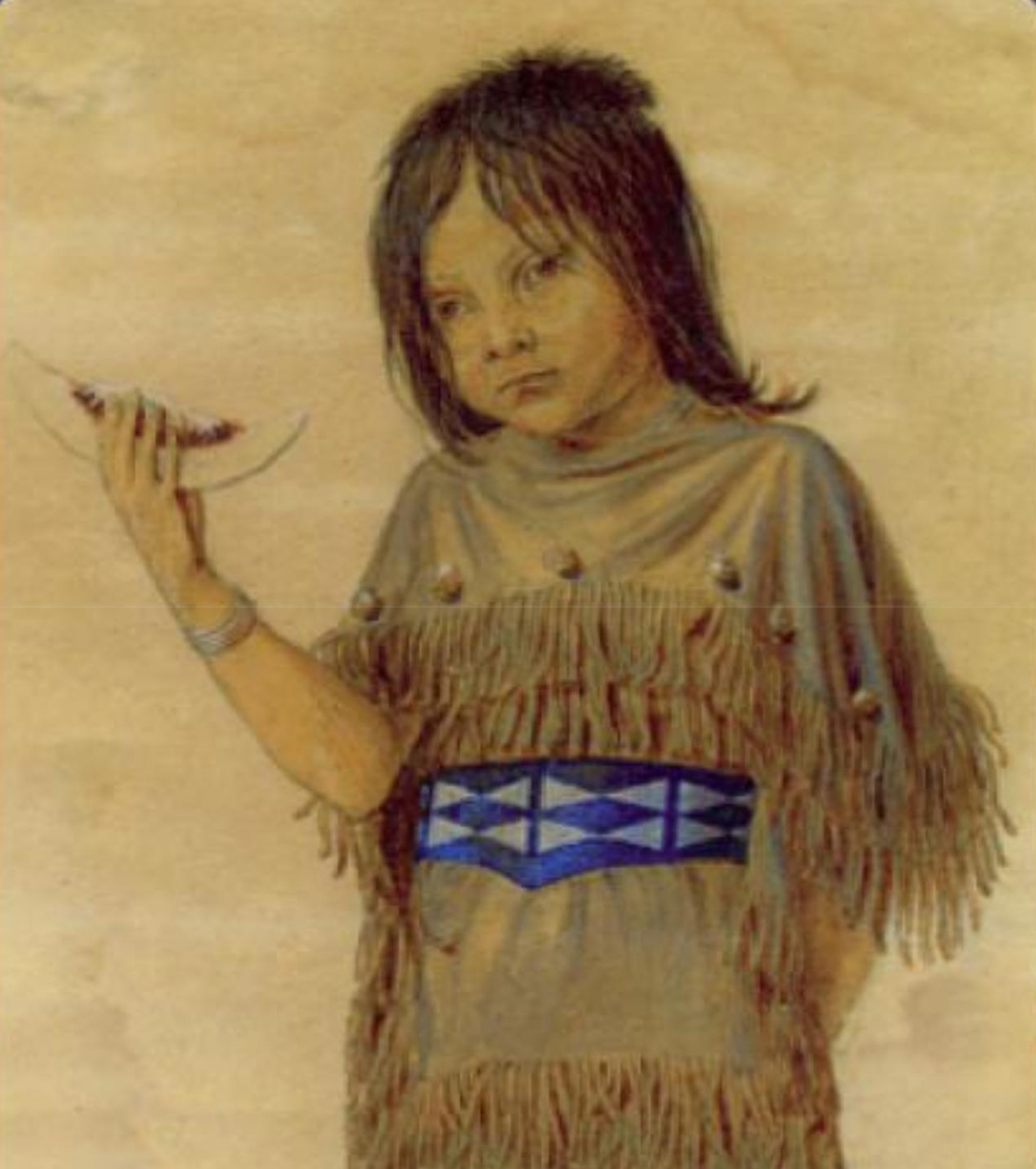 Watercolor painting by American (originally German) artist Friedrich Richard Petri, died 1857